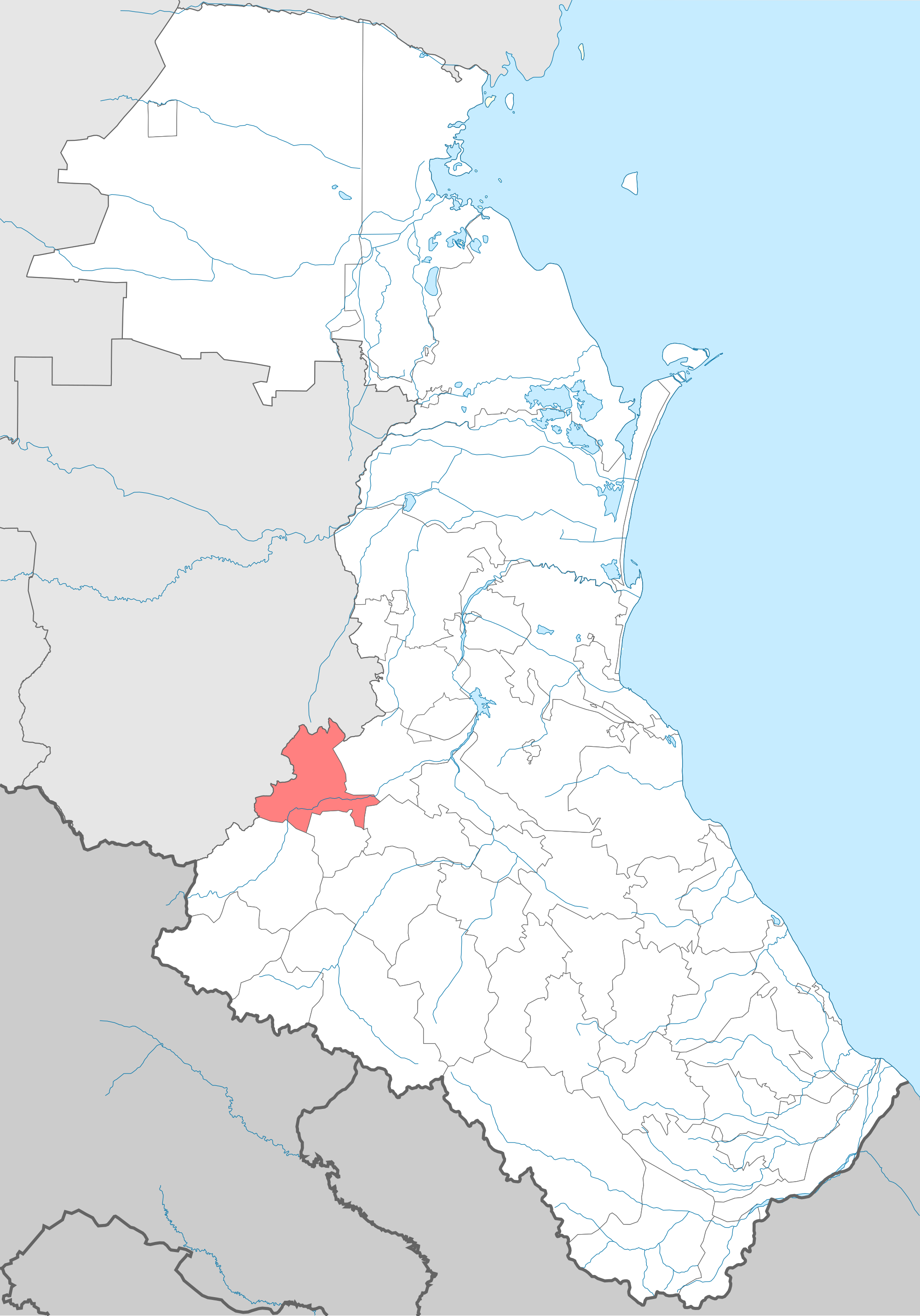 Botlikhsky district locator map